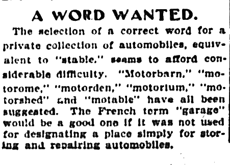 A clipping of a 1901 newspaper discussing what a private place to store automobiles should be called. Some of the suggested names include "motorbarn", "motorome", "motorden", "motorium", "motorshed", "motable", or the French based "garage"